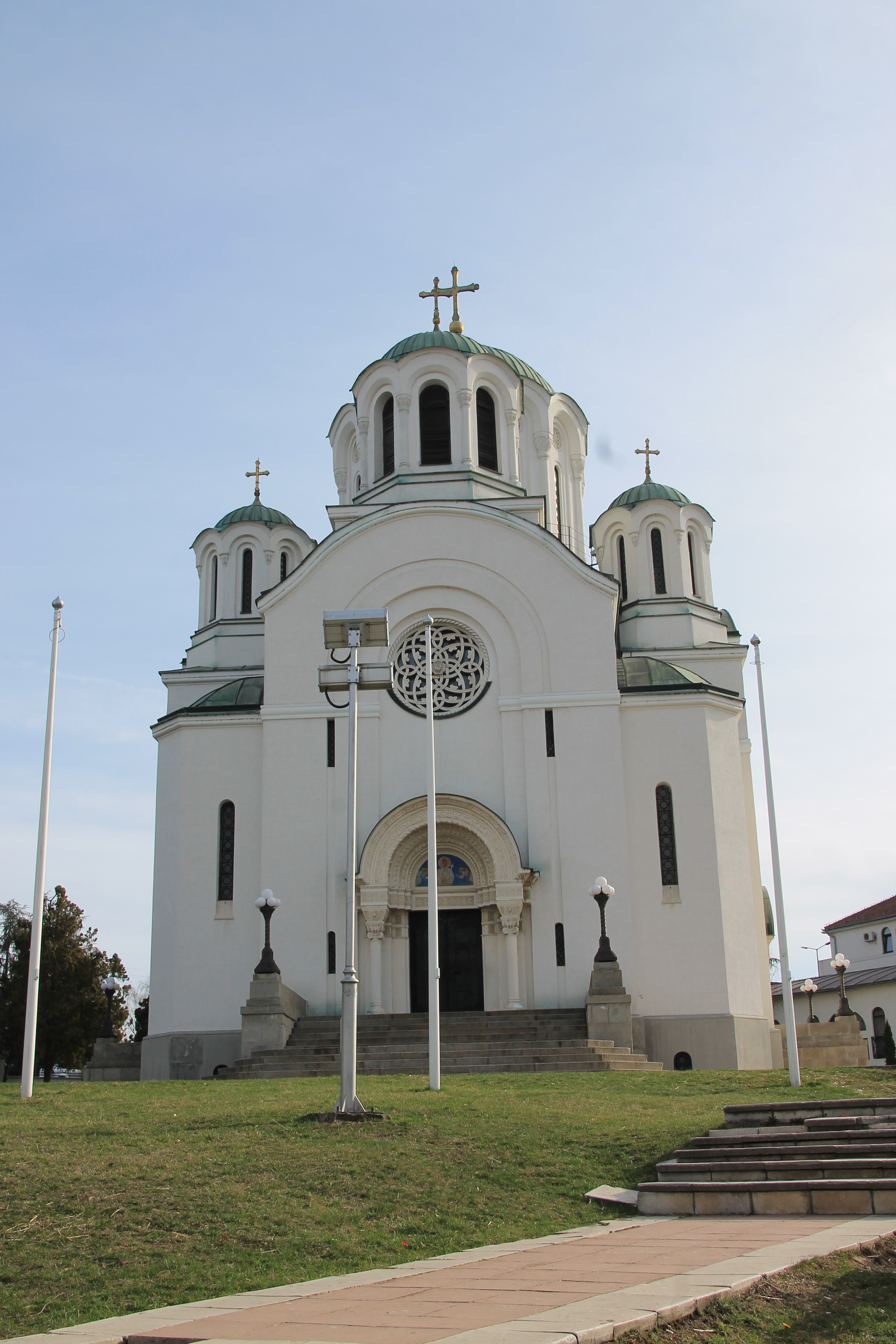 Memorial Church in Lazarevac